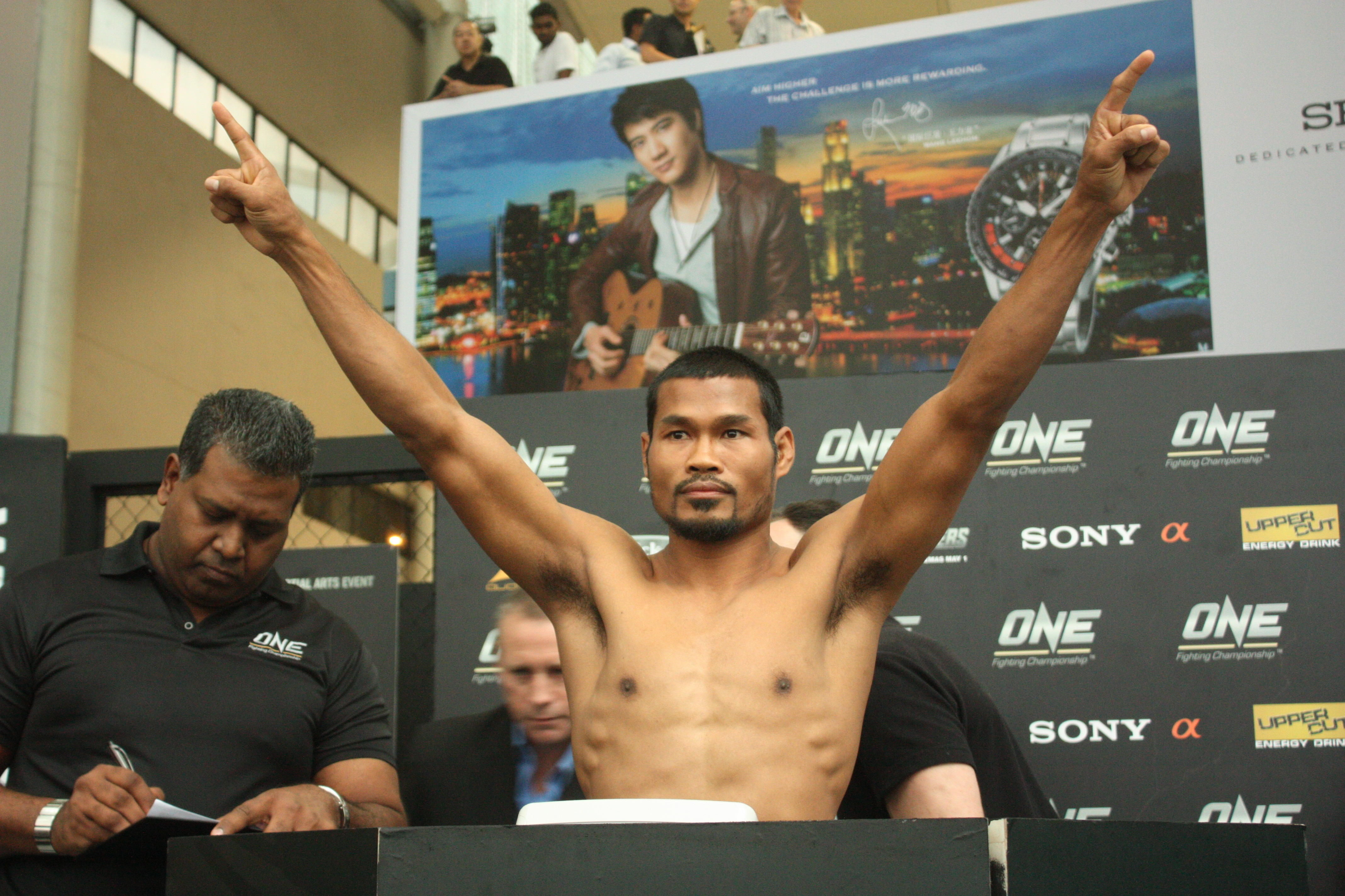 Yodsanan at the ONE Fighting Championship 'War of the Lions' weigh in